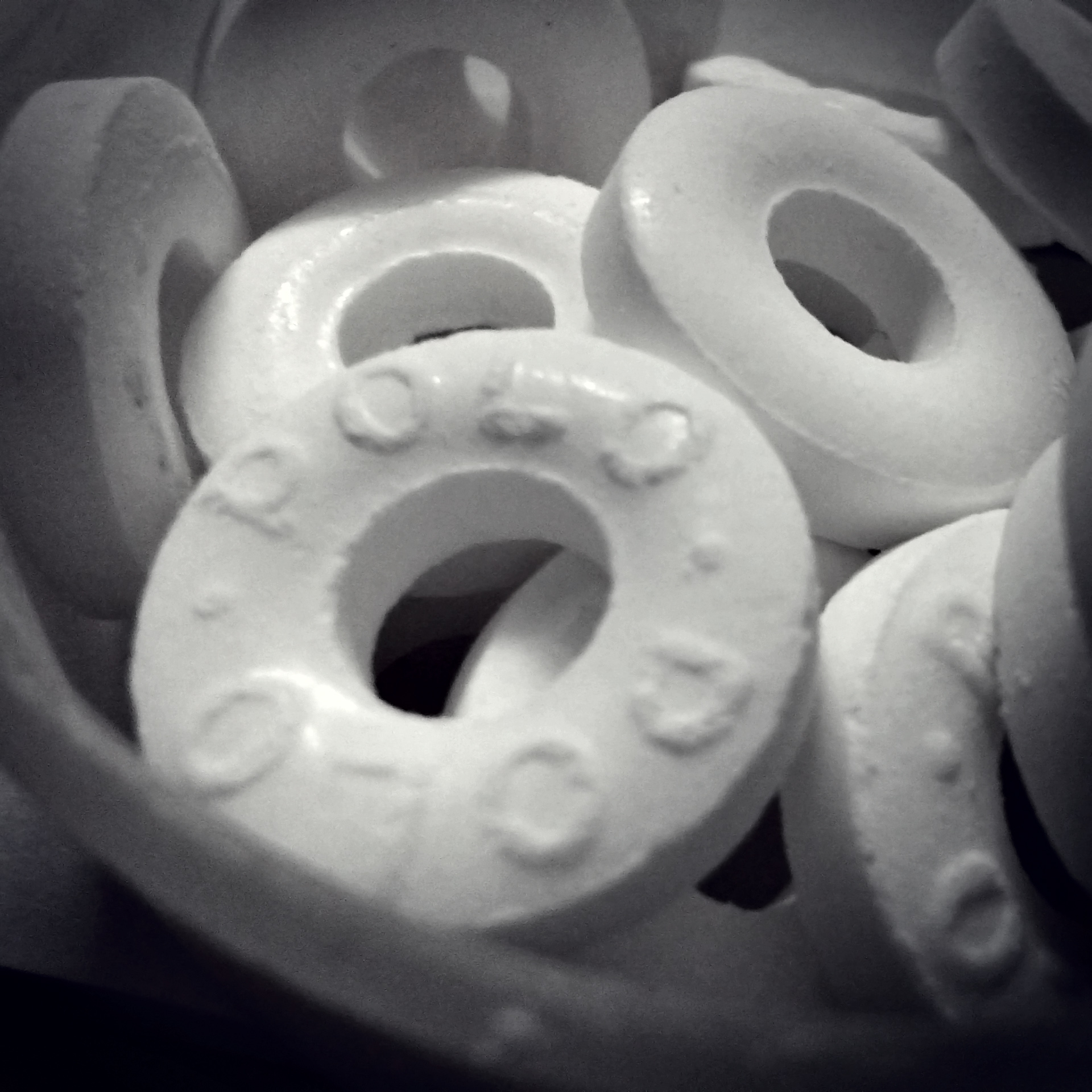 Polo an addiction to every Indian